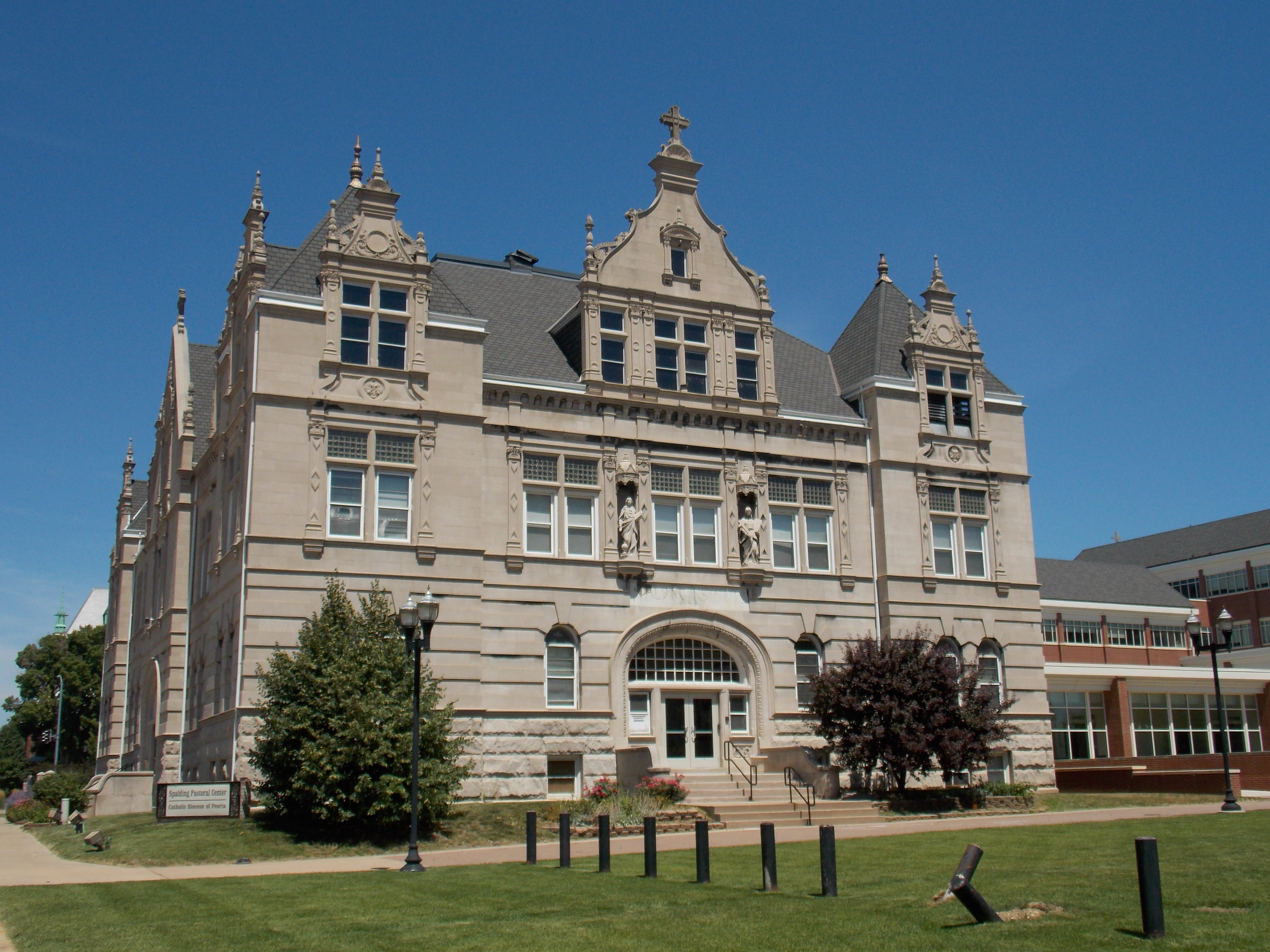 Spalding Pastoral Center in Peoria, Illinois. It is a contributing property in the North Side Historic District. The building originally housed a Catholic high school named Spaulding Institute.